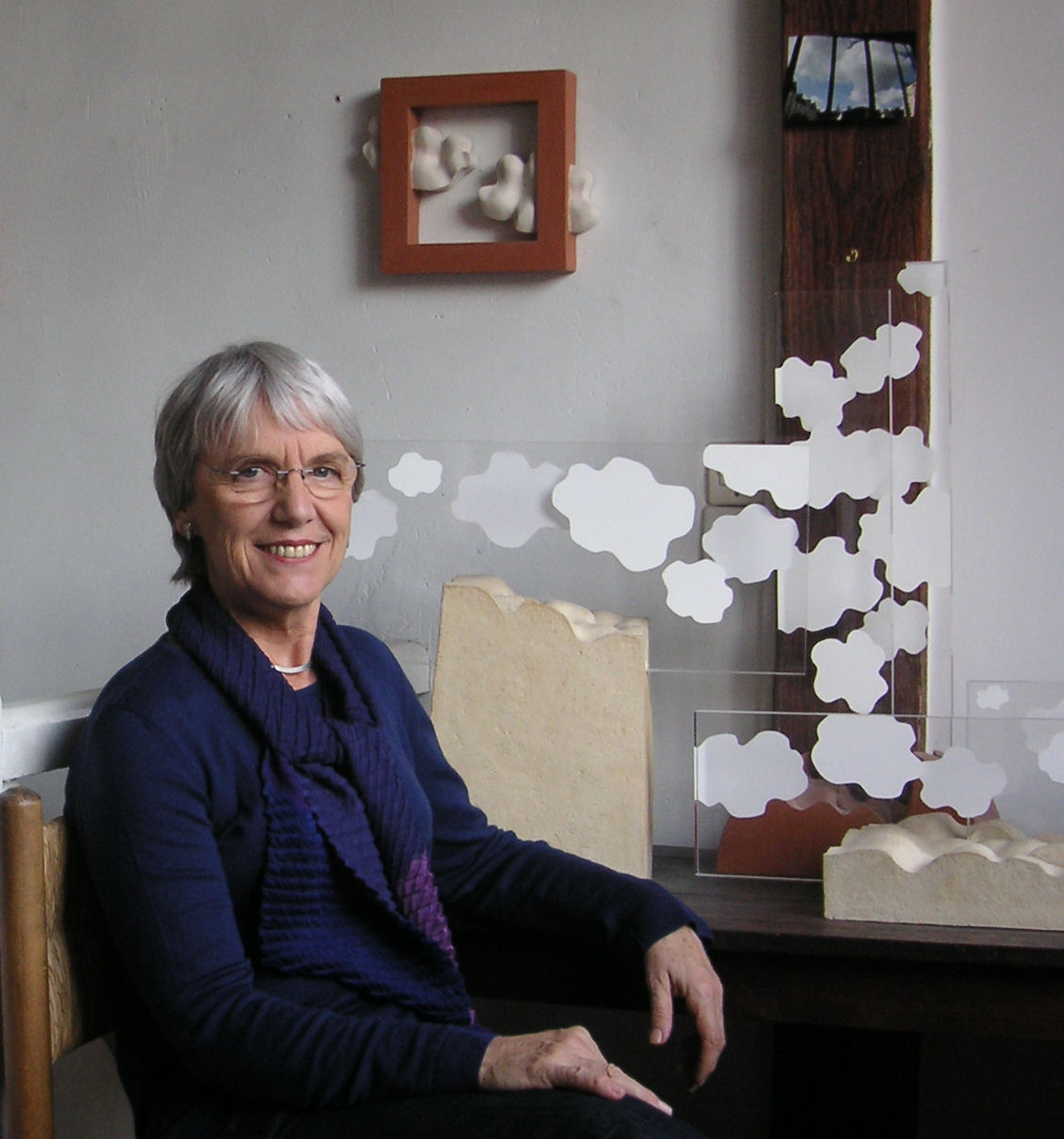 Catherine Bouroche - Portrait in her workshop